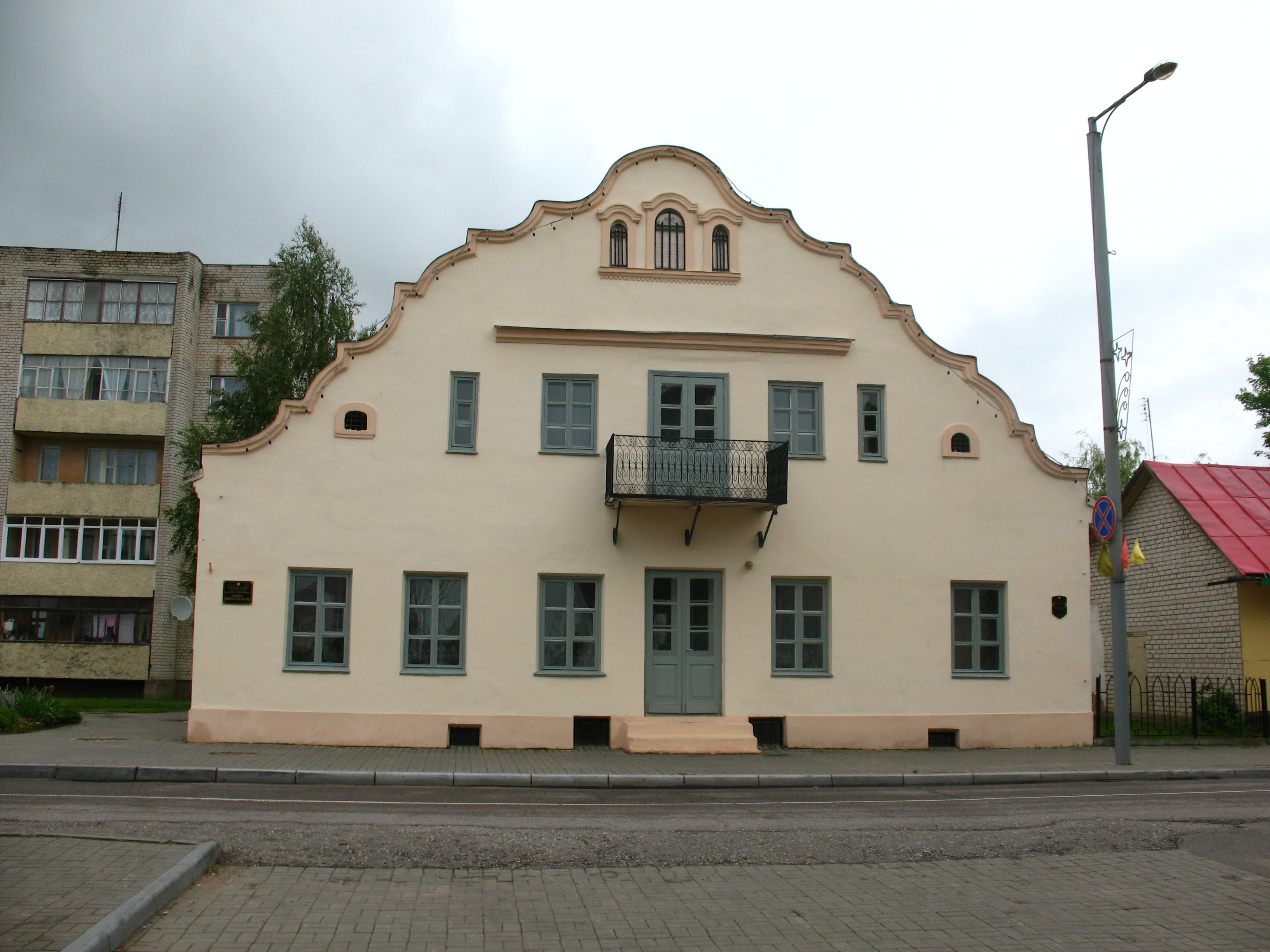 Беларуская (тарашкевіца): Дом рамесьніка. г. Нясьвіж This is a photo of Belarusian heritage monument. Reference number: 611Г000479 ( WLM)